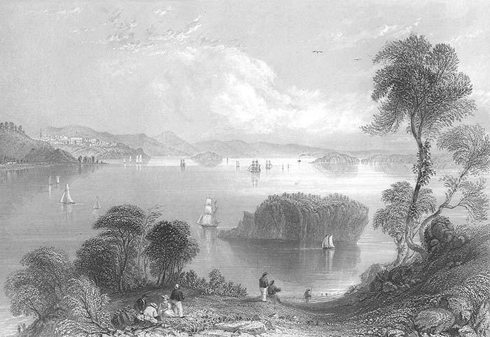 East-port and Passamaquoddy Bay (steel engraving)